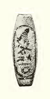 Picture of a glazed pottery bead bearing the name of Psusennes II. Reign of Psusennes II, 21st dynasty, Third Intermediate Period.